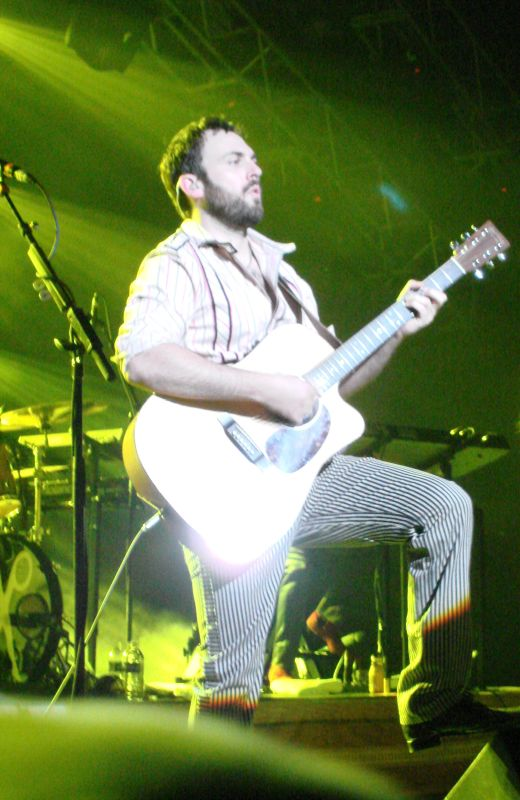 Babydaddy, with the Scissor Sisters at the Theater at Madison Square Garden, New York, 3/1/07.